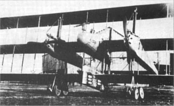 Caproni Ca.41 - first production series of Ca.4-Ca.40 family